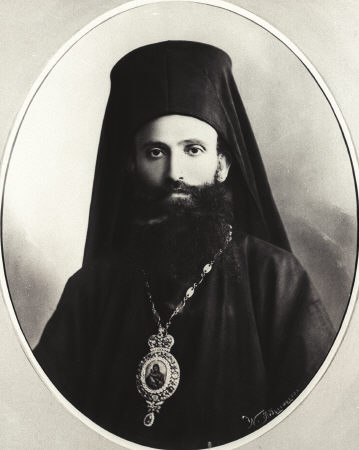 Aimilianos Lazaridis, the greek martyr bishop of Grevena